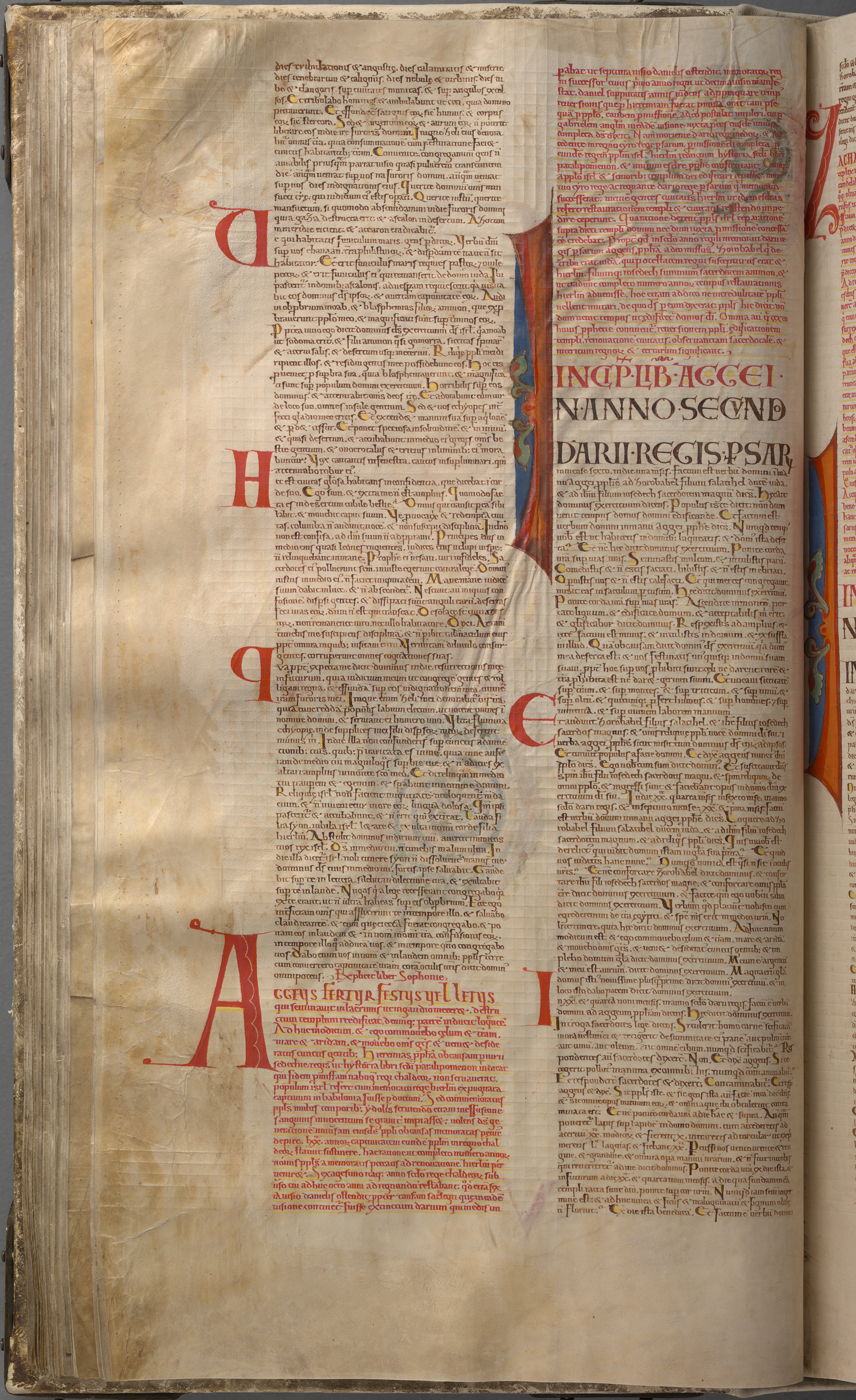 Giant Book) is the largest extant medieval manuscript in the world. It is also known as the Devil's Bible because of a large illustration of the devil on the inside and the legend surrounding its creation. It is thought to have been created in the early 13th century in the Benedictine monastery of Podlažice in Bohemia (modern Czech Republic). It contains the Vulgate Bible as well as many historical documents all written in Latin. During the Thirty Years' War in 1648, the entire collection was taken by the Swedish army as plunder, and now it is preserved at the National Library of Sweden in Stockholm, though it is not normally on display. This page contains the last part of the book of Zephaniah and the first part of the book of Haggai.